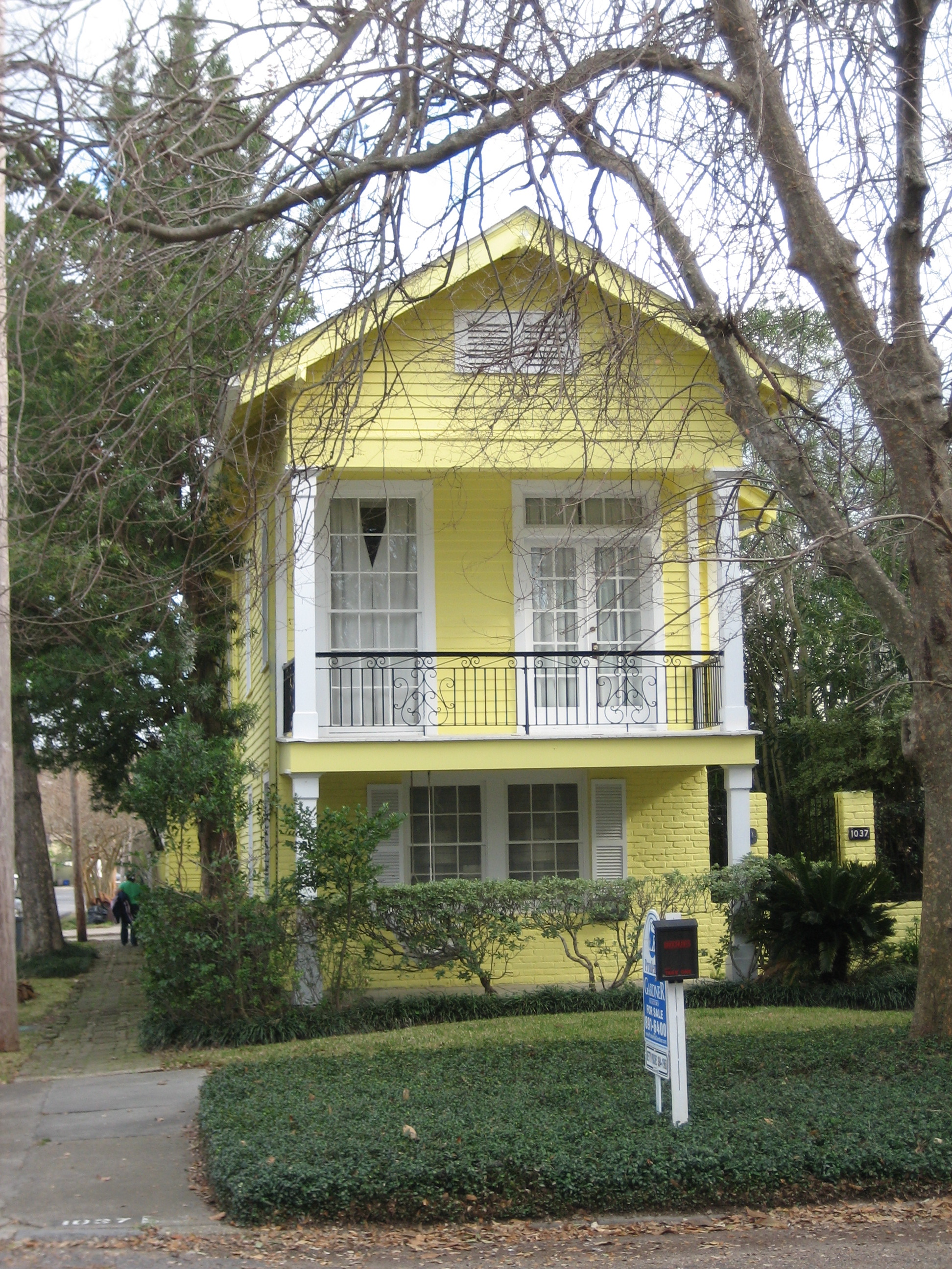 New Orleans: "Raised shotgun" narrow old house, Uptown. The small ground floor below the main living space is locally called a "basement", although not below ground. Photo by Infrogmation